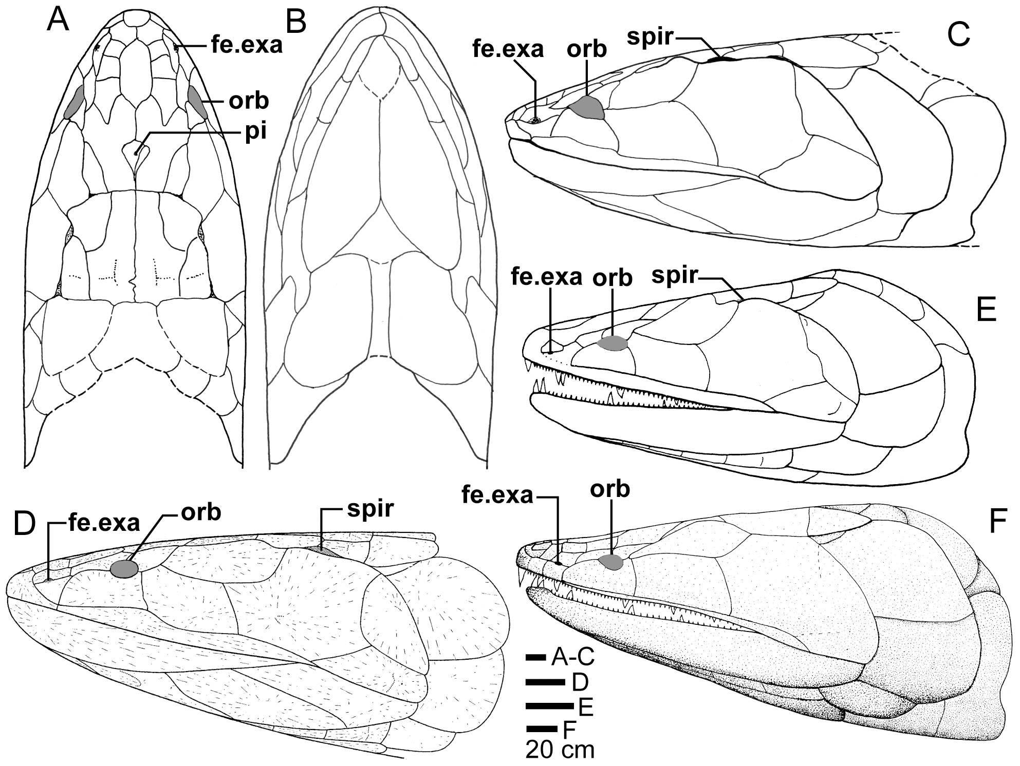 Skull and shoulder-girdle restorations. A–C, Edenopteron keithcrooki gen. et sp. nov. Restoration of head and shoulder-girdle in dorsal (A), ventral (B) and left lateral (C) views (based on the 3-D life-sized model shown in Fig. 22). D, left lateral view of Eusthenodon waengsjoei, shoulder-girdle omitted (after [19]: fig. 26A). E, left lateral view of Cabonnichthys burnsi (after [16]: fig. 15B). F, left lateral view of Mandageria fairfaxi (after [15]: fig. 21b).